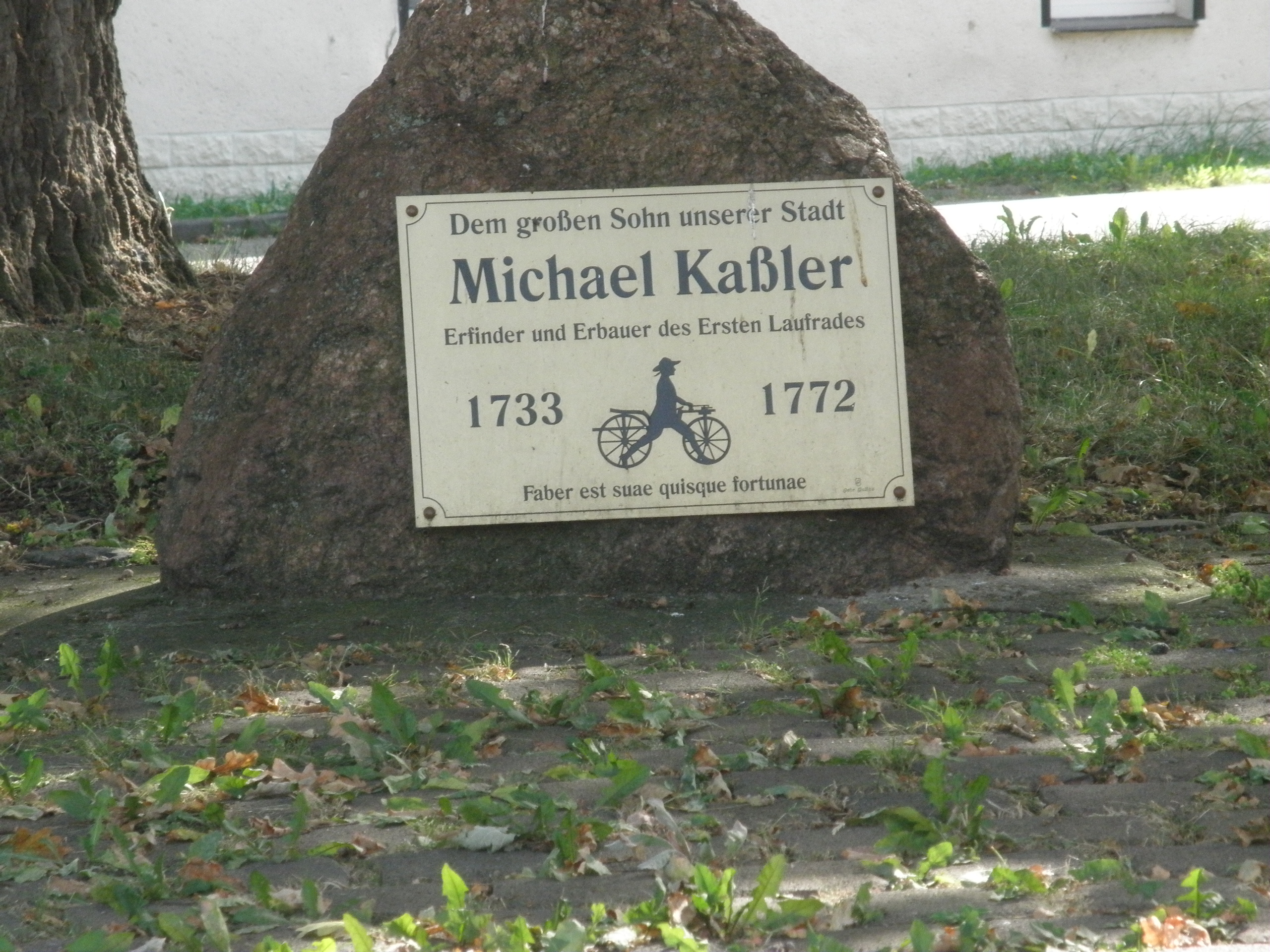 Monument for Michael Caßler in Braunsdorf (Braunsbedra) in Saxony Anhalt